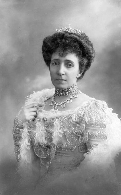 Princess Maria Teresa de Braganza (1855–1944), third wife of Archduke Karl Ludwig of Austria